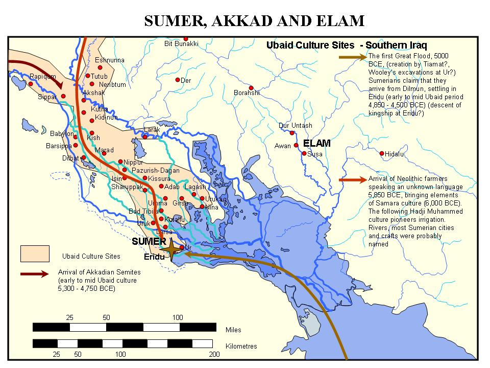 Map of sites of the Ubaid culture